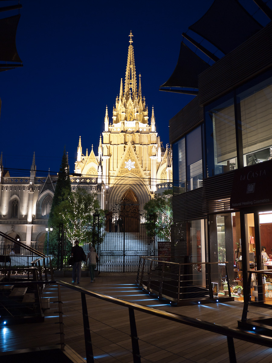 Aoyama St. Grace Cathedral in Kita-Aoyama, Tokyo, Japan